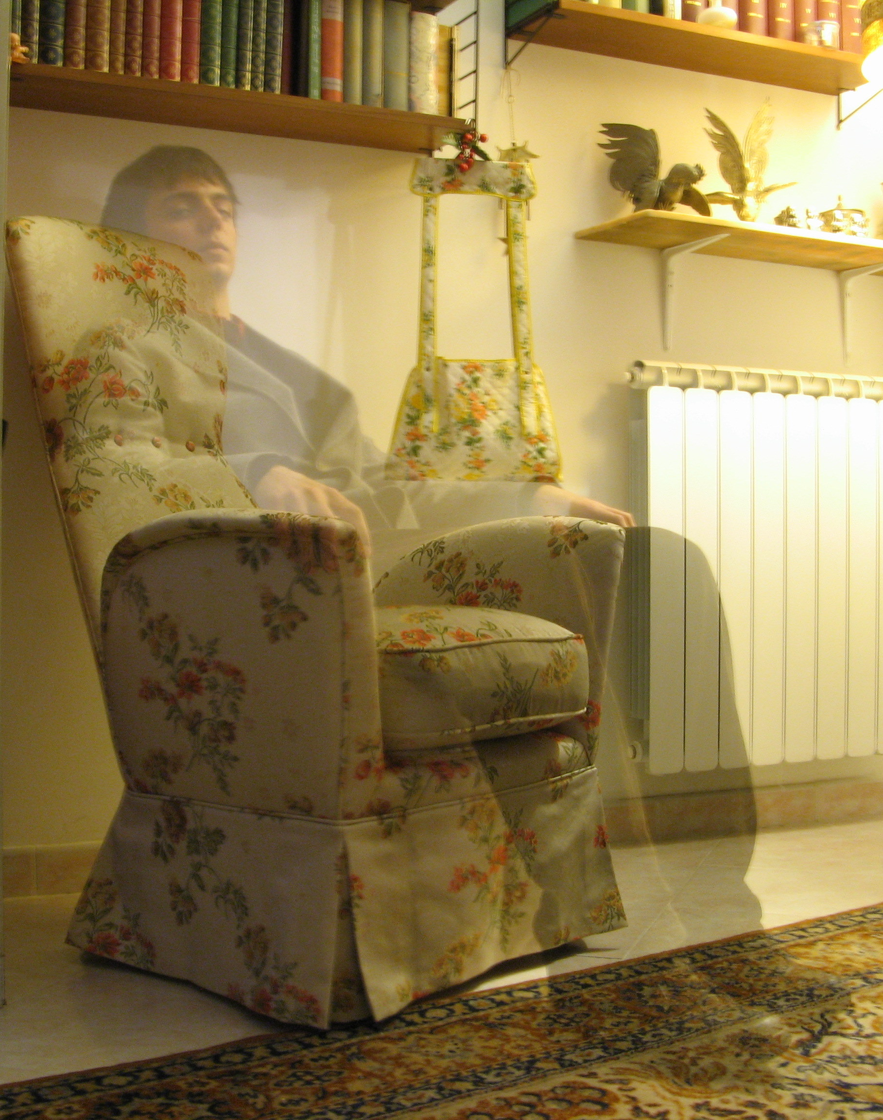 A supposed ghost sitting on a chair.